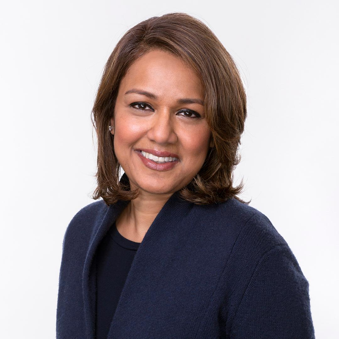 Anika Rahman, 2018